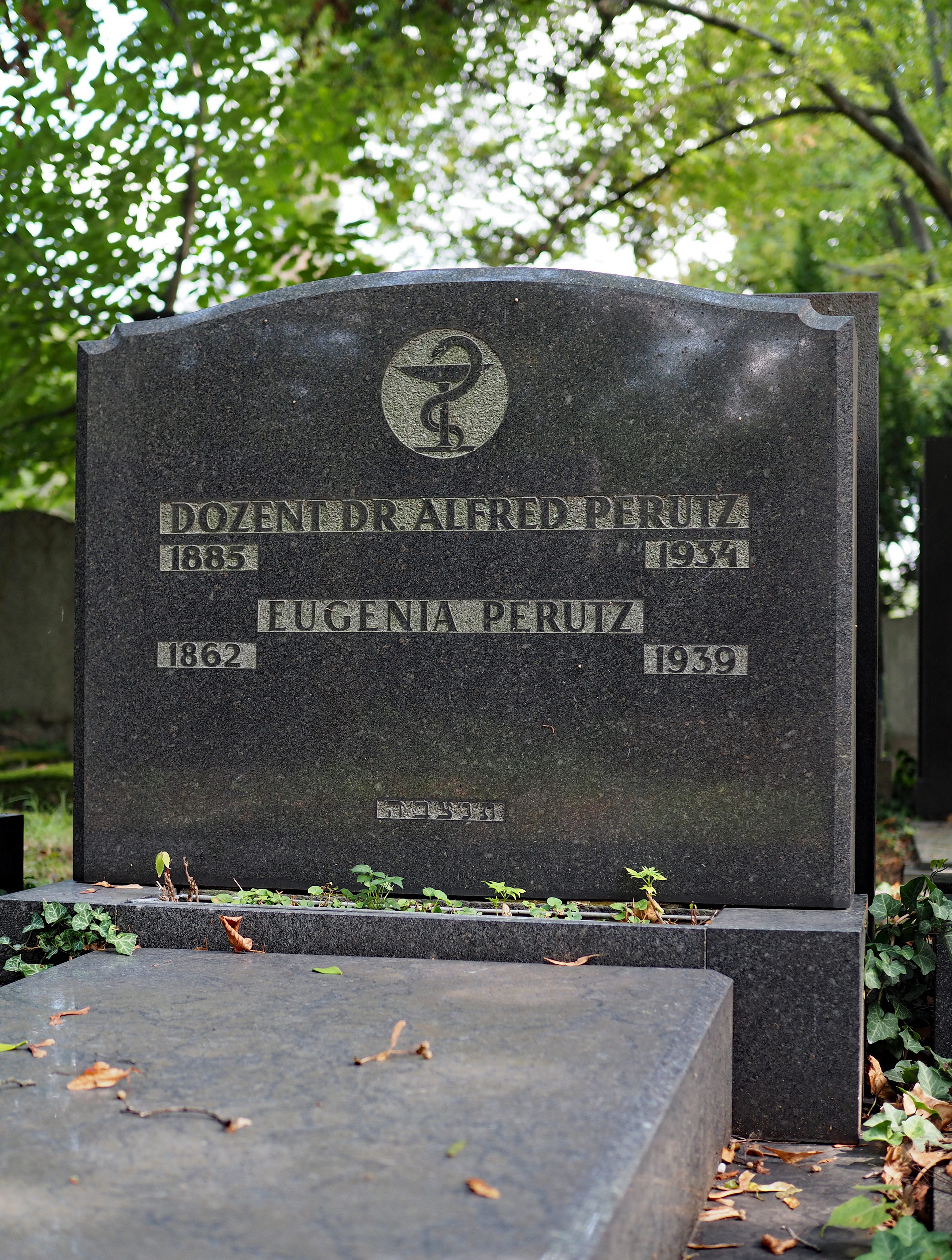 Grave of the dermatologist Alfred Perutz (1885–1934) and of Eugenia Perutz (1862–1939) in the New Jewish part of the Vienna Central Cemetery (15a/6/27).